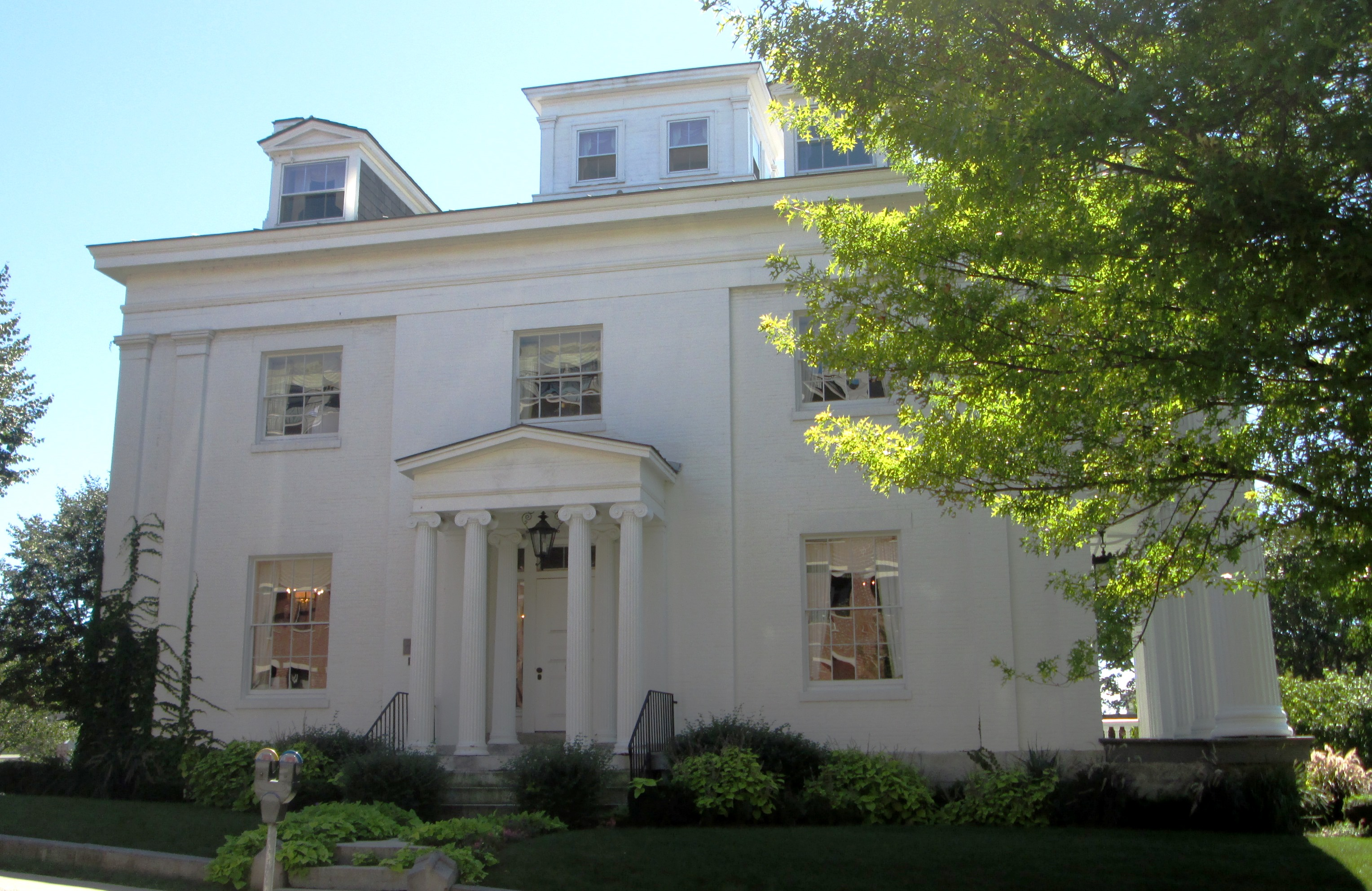 The Follett House at 63 College Street between Battery and S. Champlain Streets in Burlington, Vermont was built in 1840 as the residence of Timothy Follett, a developer and former county judge who later became the head of the Rutland Railroad. The house was designed by Ammi B. Young in the Greek Revival style. (Source: [1])